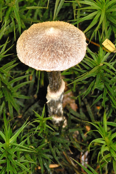 Cortinarius paleaceus from Commanster, Belgium. If you think this is a different taxon, please contact James Lindsey.